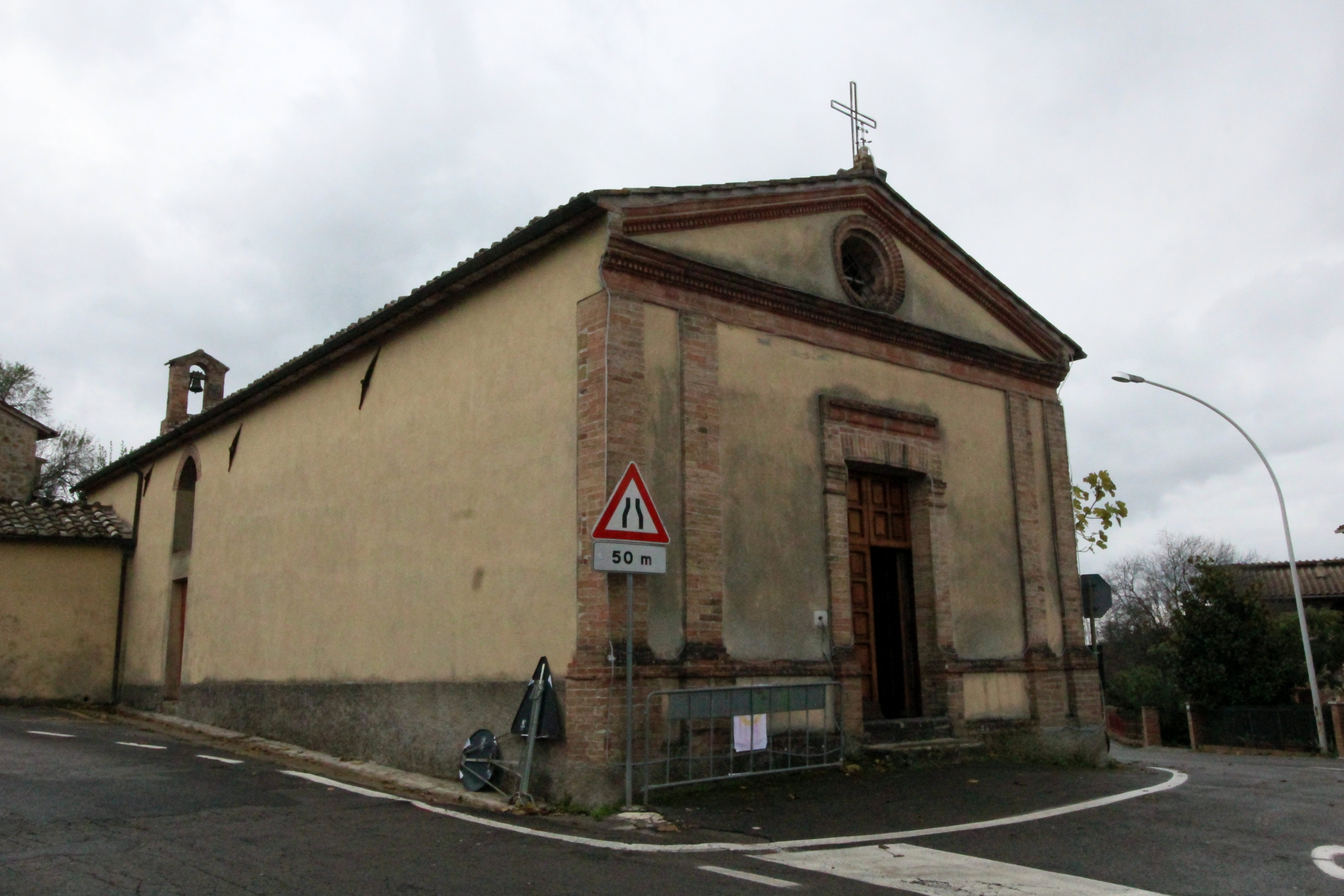 Church/Chapel Santa Maria Assunta a Piantasala, Casciano, hamlet of Murlo, Province of Siena, Tuscany, Italy